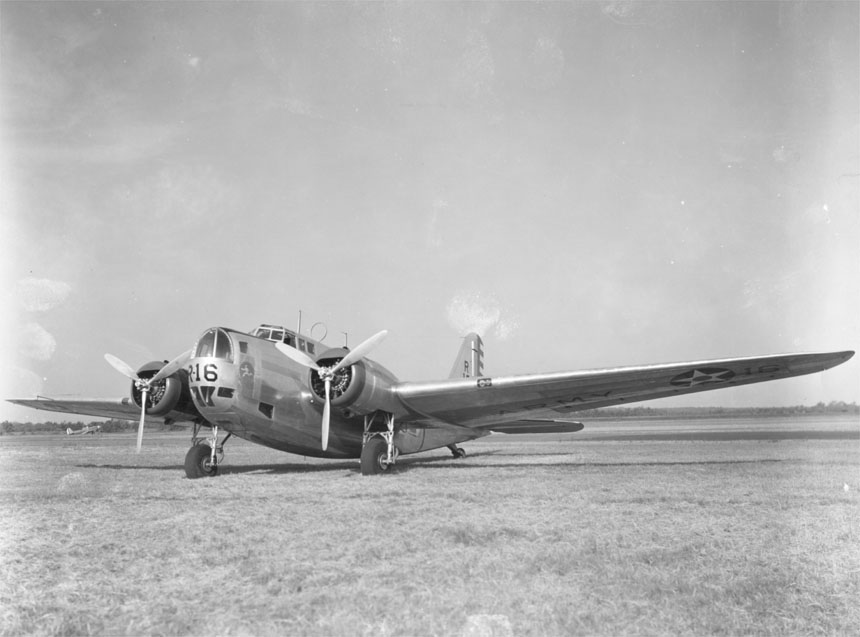 Description: Douglas B-18 of the 21st Reconnaissance Squadron, 3/4 front view.